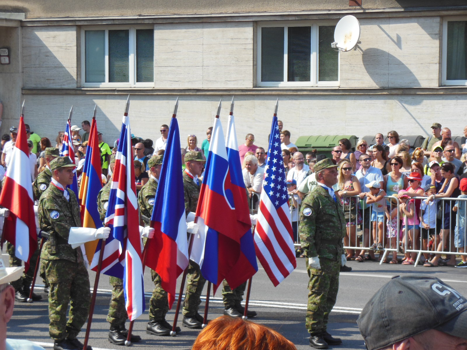 75th Anniversary of the Slovak National Uprising Celebrations in Banská Bystrica, Slovakia. Military parade at Štadlerovo nábrežie and Národná ulica.